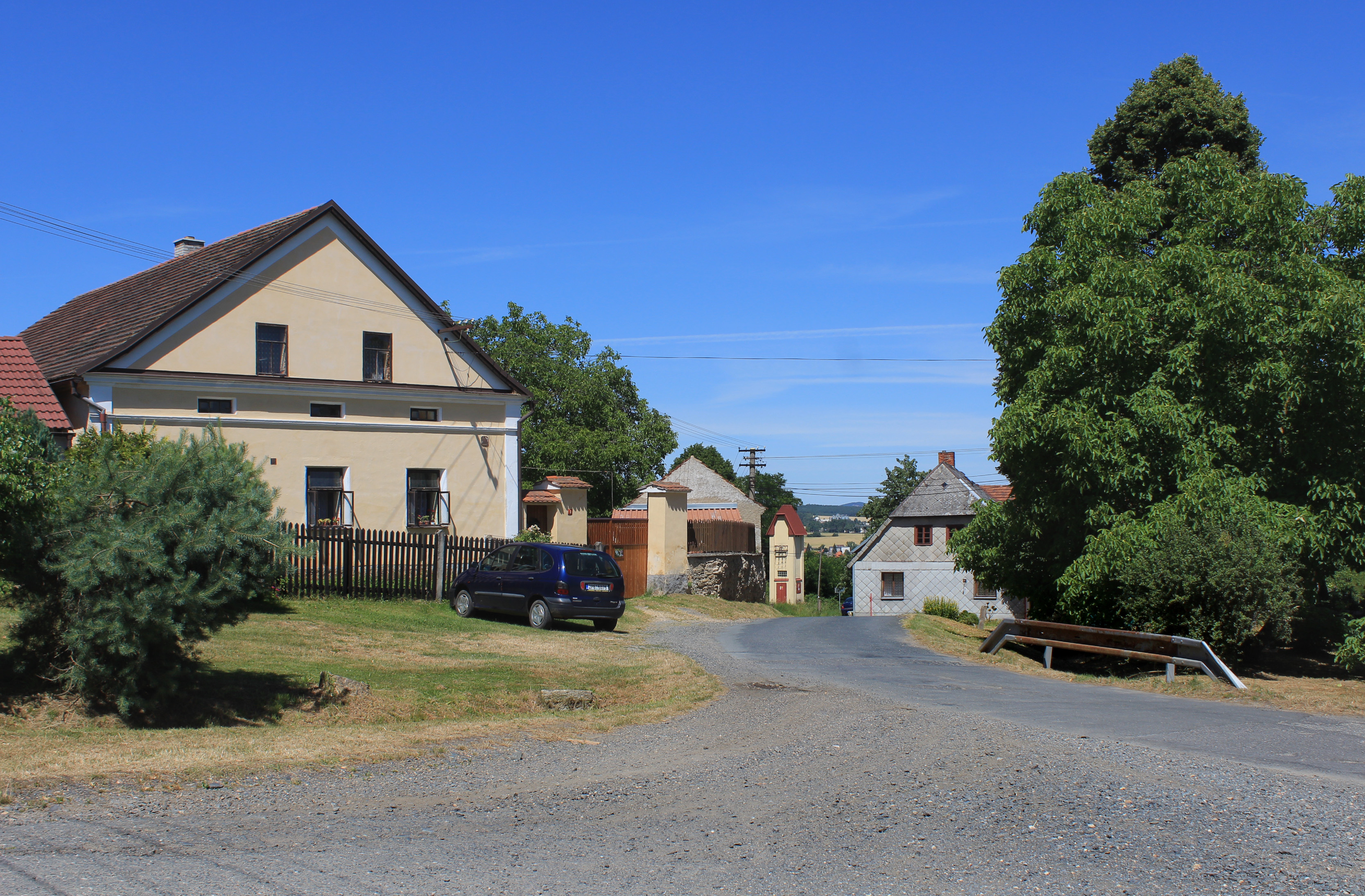 Common in Šitboř, part of Poběžovice, Czech Republic.